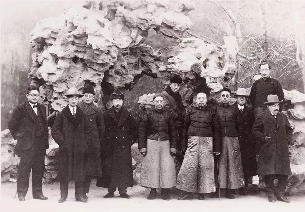 1920s photo in Beijing: Chen Daqi 陈大齐、Shen Yimo 沈尹默、Zhang Fengju 张凤举, Shen Cianshi 沈兼士, Ma Yuezhao 马裕藻、Ma Heng 马衡、Wang Guowei 王国维、Zhou Zuoren 周作人、Shen Shiyuan 沈士远. Beijing University Chinese Literature Department 北大国文系.